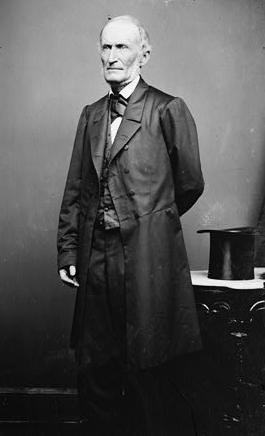 Arnold, Hon. Isaac Newton of ILL. Acted as aide to Colonel Hunter at Battle of Bull Run.